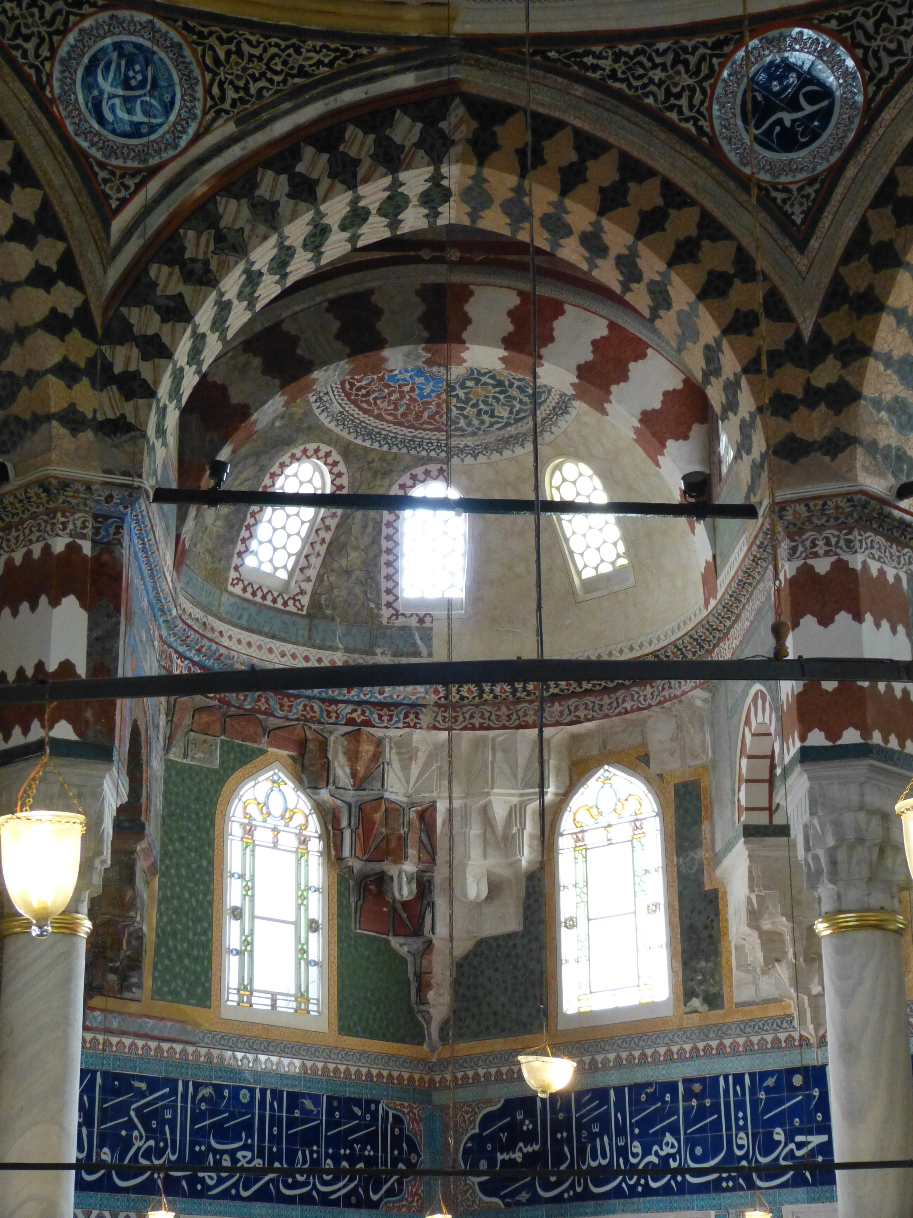 Türbe (Tomb) of Sultan Selim II. (1524–1574)